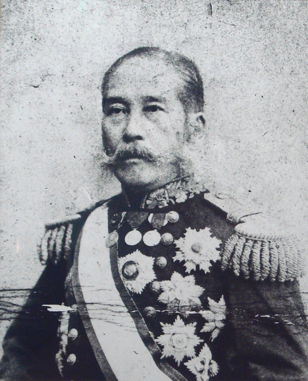 Foreign Minister Enomoto Takeaki